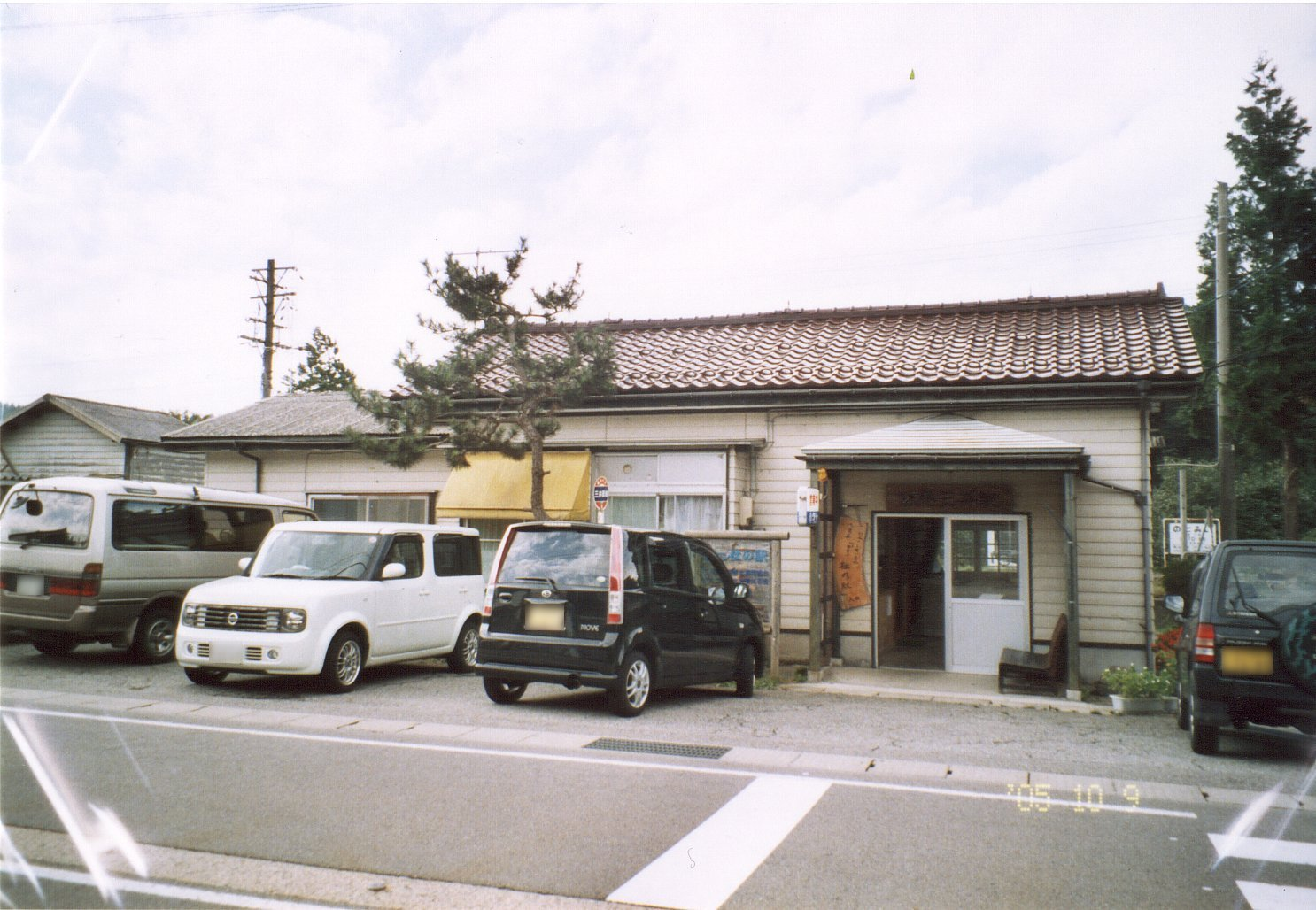 The remains of Noto-mii Station, Noto Railway on October 9, 2005.